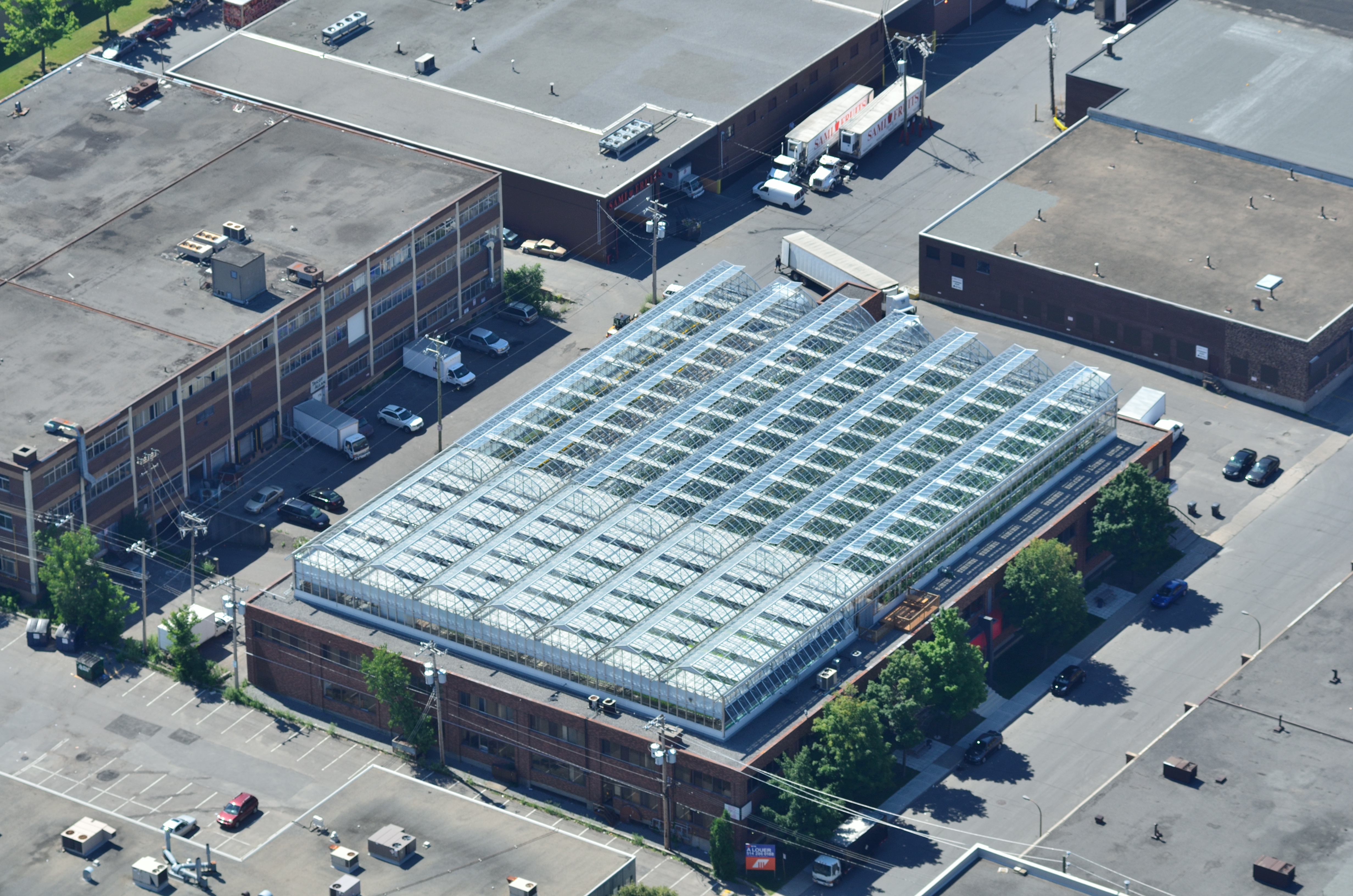 Aerial view of Lufa Farms, the world’s first commercial rooftop greenhouses. Montreal neighborhood of Ahuntsic-Cartierville.